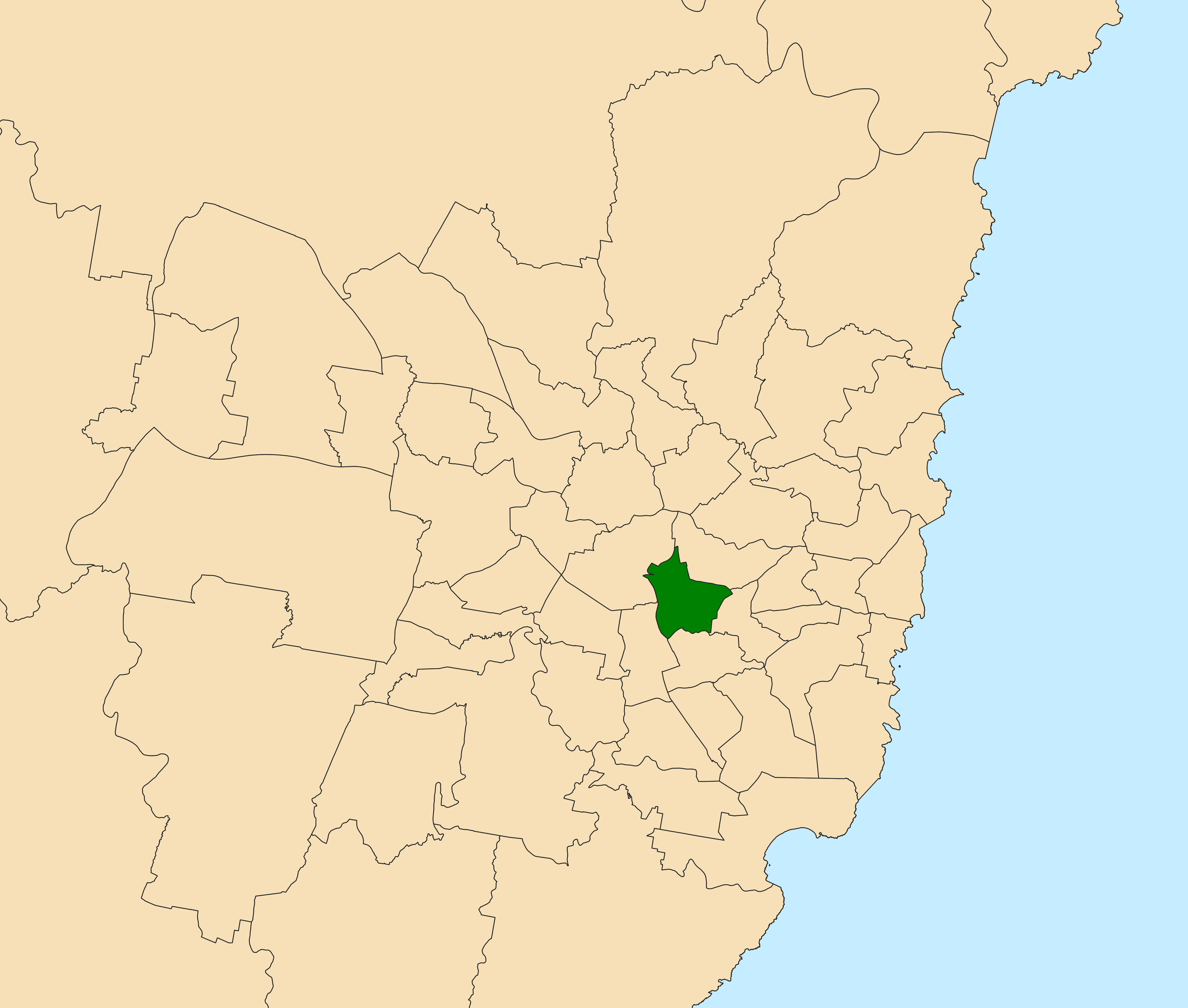 Location of the state electoral district of Strathfield (dark green) in the metropolitan Sydney area as of the 2019 New South Wales state election. Incorporates or developed using Administrative Boundaries ©PSMA Australia Limited licensed by the Commonwealth of Australia under Creative Commons Attribution 4.0 International licence (CC BY 4.0).